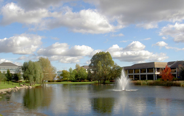 Arlington business park near Theale If all working environments was like this.